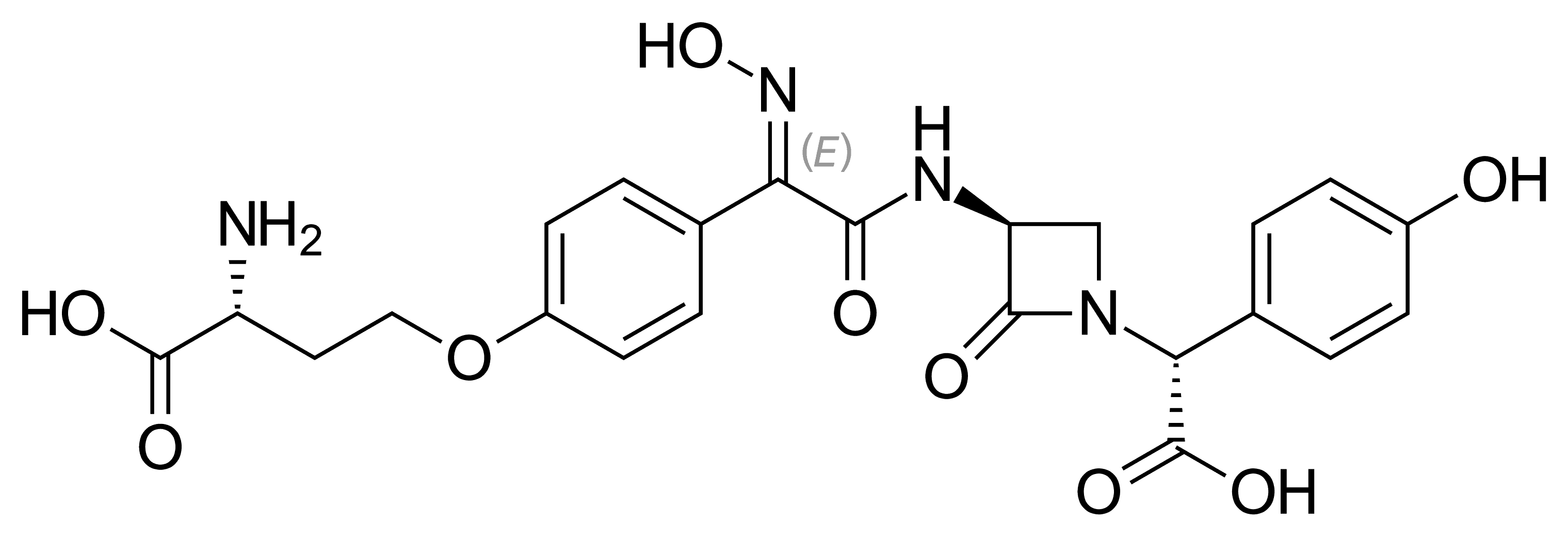 chemical structure of Nocardicin A